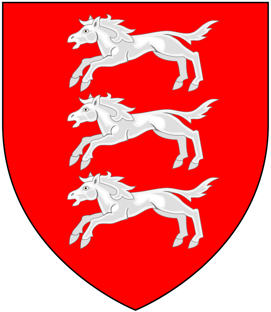 Arms of Fry of Yarty in the parish of Membury, Devon: Gules, three horses courant (in pale) argent (Pole, Sir William (d.1635), Collections Towards a Description of the County of Devon, Sir John-William de la Pole (ed.), London, 1791, p.484; Vivian, Lt.Col. J.L., (Ed.) The Visitations of the County of Devon: Comprising the Heralds' Visitations of 1531, 1564 & 1620, Exeter, 1895, p.375) The horses are shown in pale on the mural monument in the Yarty Chapel of St John's Church, Membury, Devon, to Nicholas Fry (d.1632) of Yarty, Sheriff of Devon in 1626. Elsewhere they are shown 2 and 1, e.g. in Washfield Church on the brass to Alice Fry (d.1605)